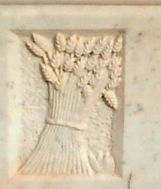 Wheat sheaf symbol on a memorial obelisk on top of Centenary Hill, corner of Southern Brook & Habgood Roads, east of Northam, Western Australia. The obelisk was erected by William Campion in 1929, as part of the Centenary of Western Australia to commemorate the pioneers who settled in the Wheatbelt region.